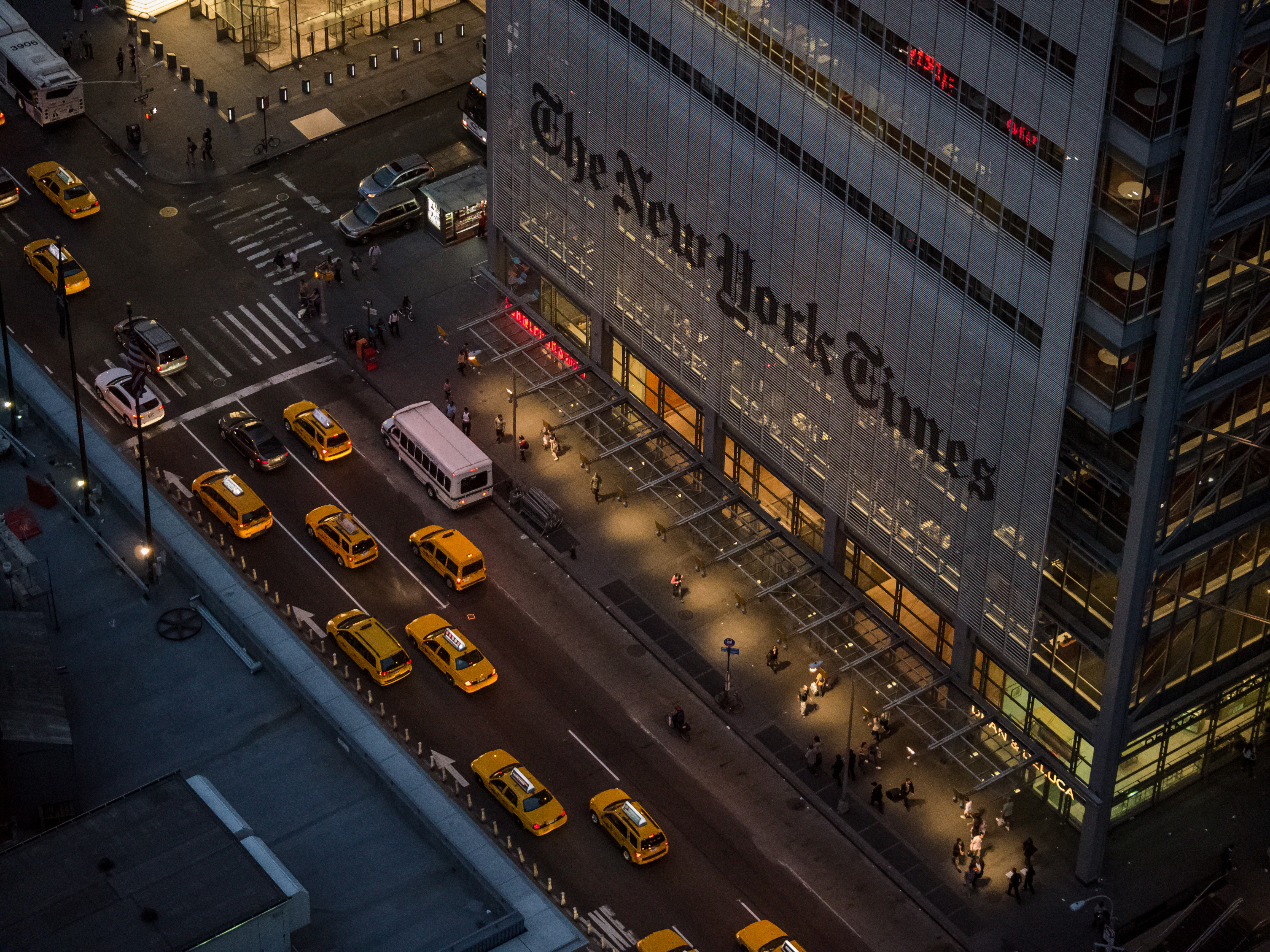 NewYork Times building